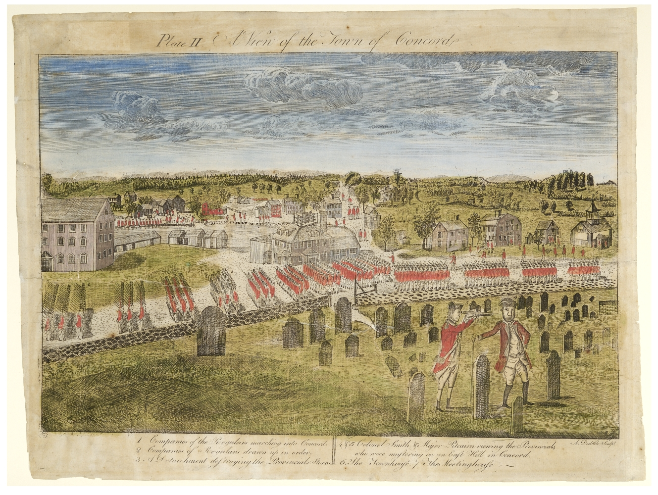 The British Army in Concord, April 19, 1775. "Plate II. A view of the town of Concord." In: "The Doolittle engravings of the battles of Lexington and Concord in 1775." New York Public Library Collection Guide: Picturing America, 1497-1899: Prints, Maps, and Drawings bearing on the New World Discoveries and on the Development of the Territory that is now the United States. Humanities and Social Sciences Library / Print Collection, Miriam and Ira D. Wallach Division of Art, Prints and Photographs.